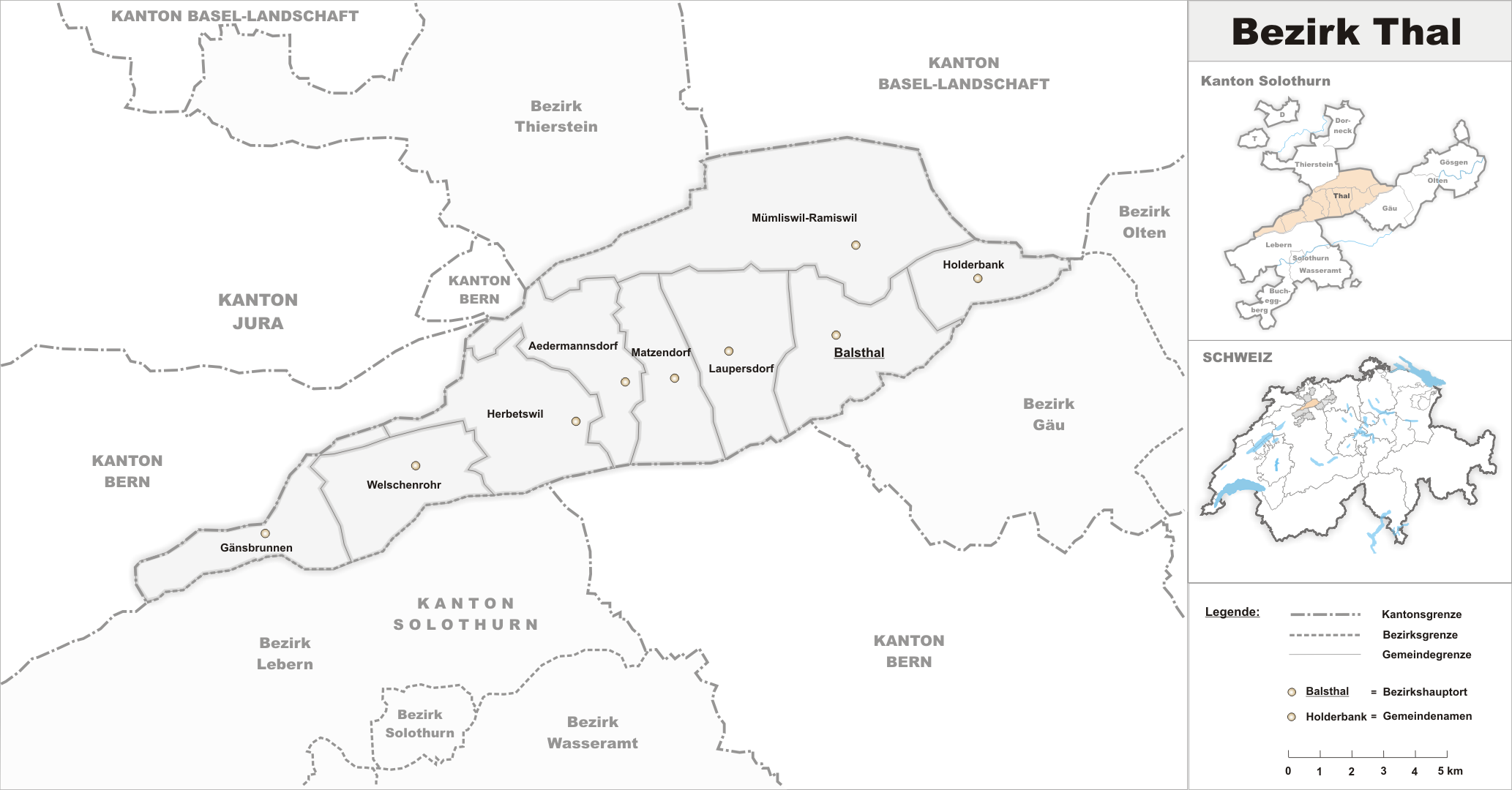 Municipalities in the district of Thal